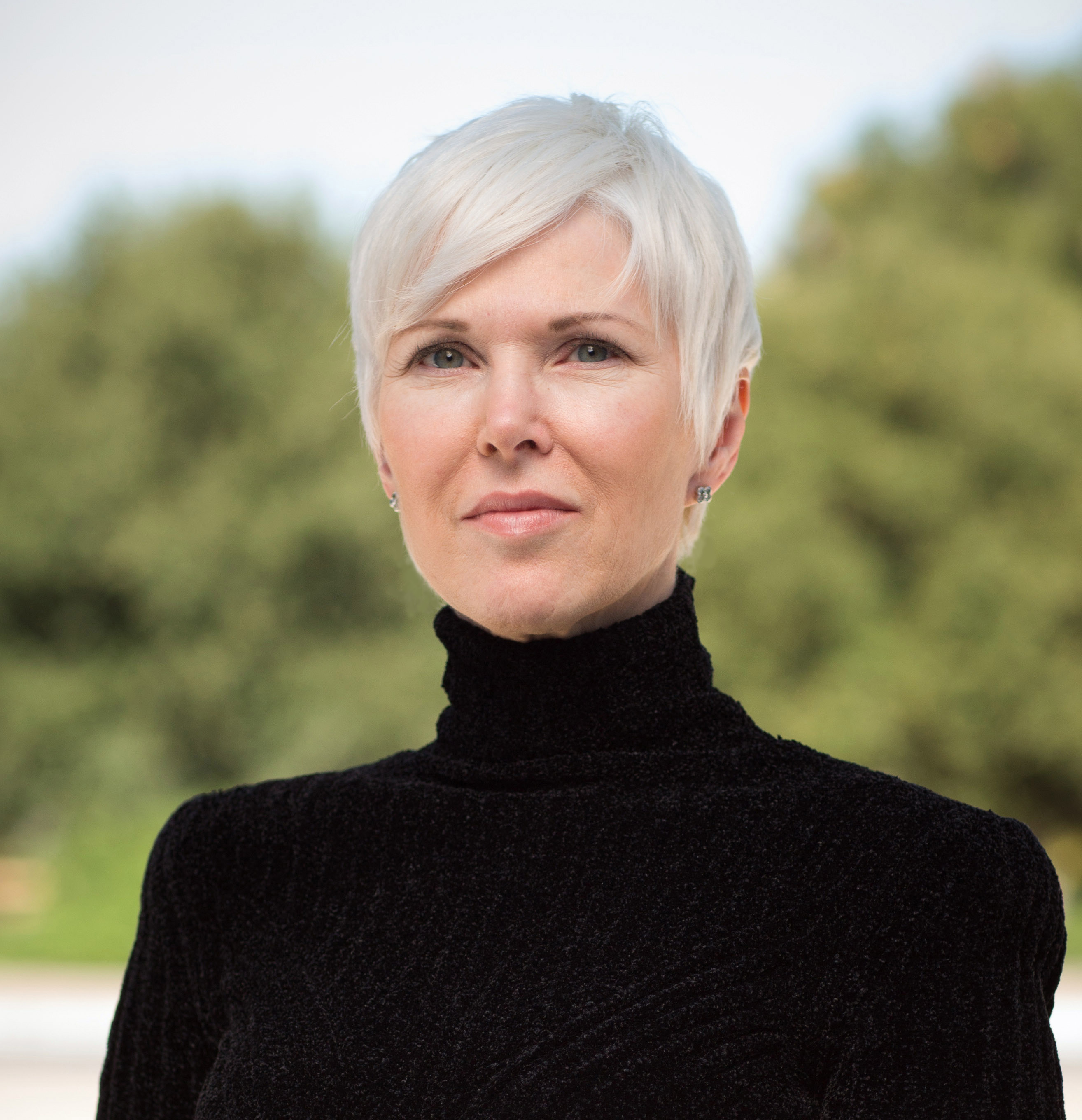 Professor